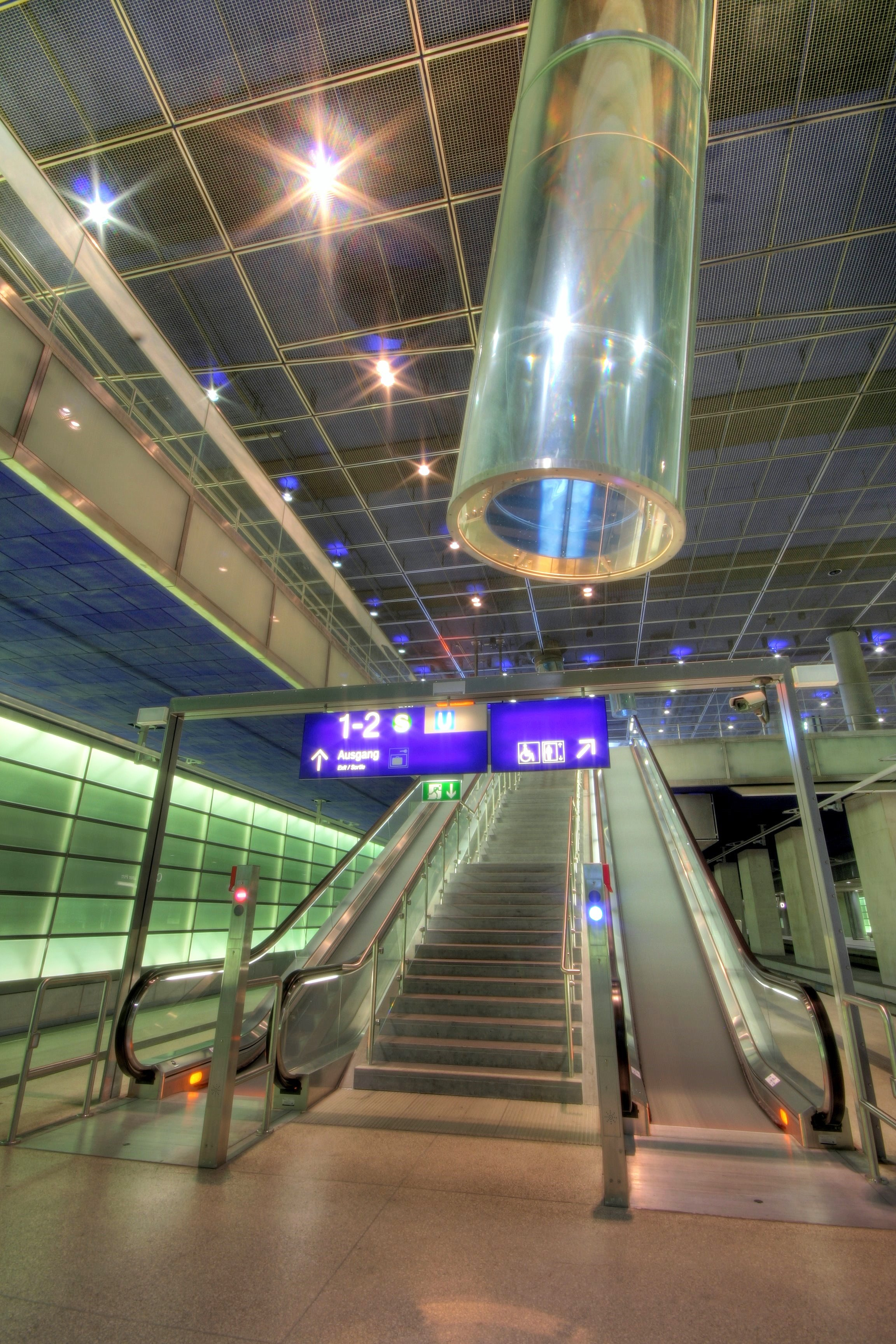 A light tube in the Potsdamer Platz subterranean train station, Berlin.